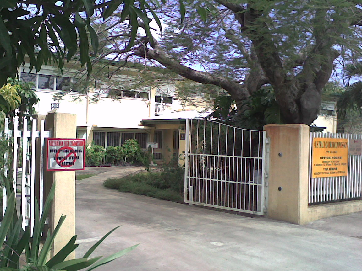 High Commission of Australia in the Kingdom of Tonga